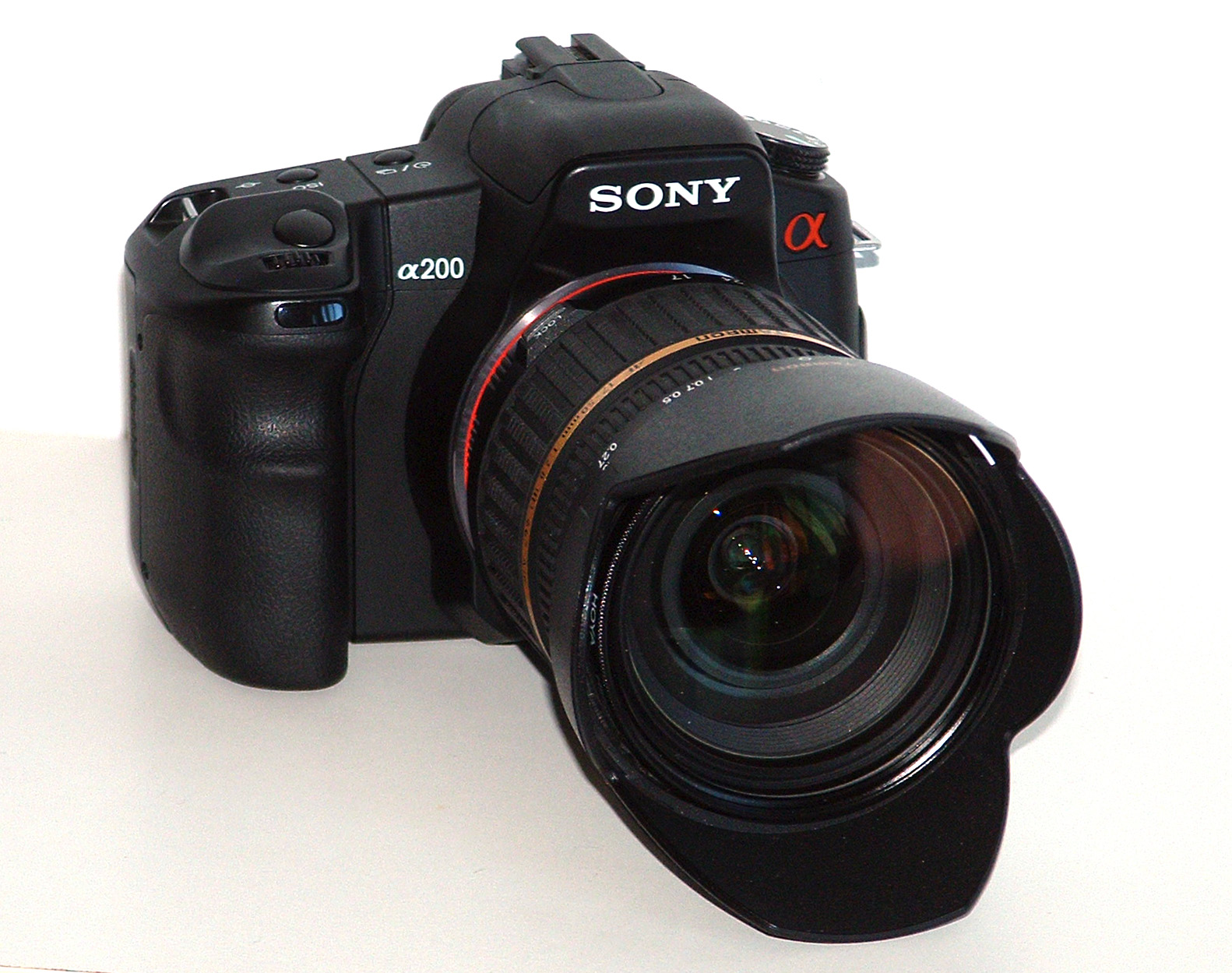 TamronSP AF17–50mm f/2.8 XR Di II LD Aspherical (IF) mounted on Sony Alpha 200 dSLR camera.